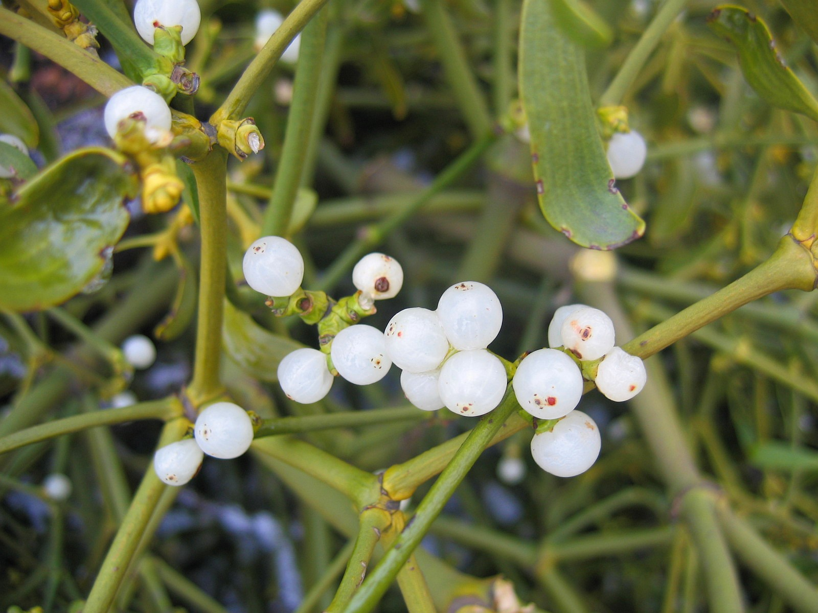 Viscum album fruit, Wrocław, Poland.